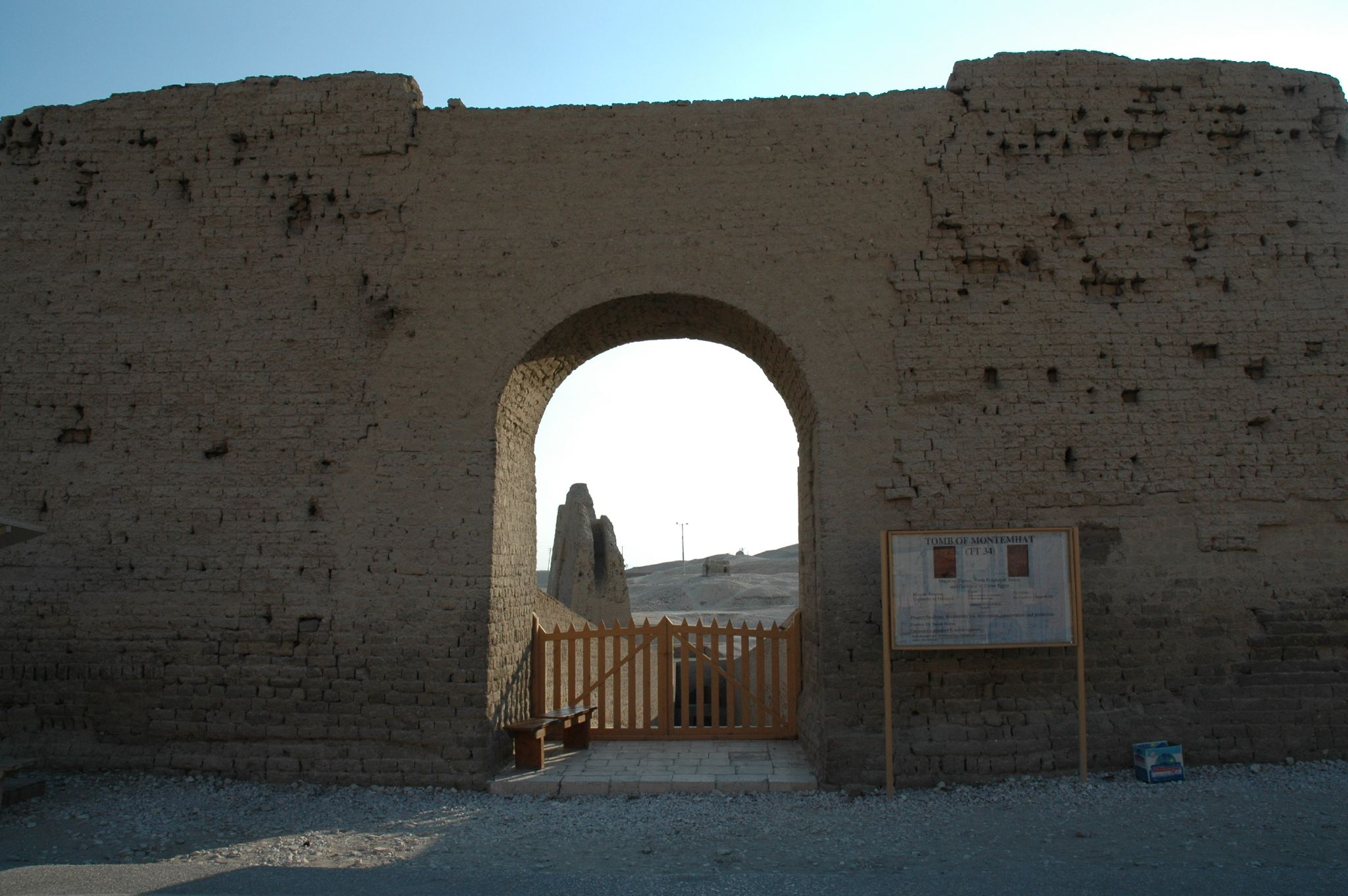 Tomb of Montemhat - TT34